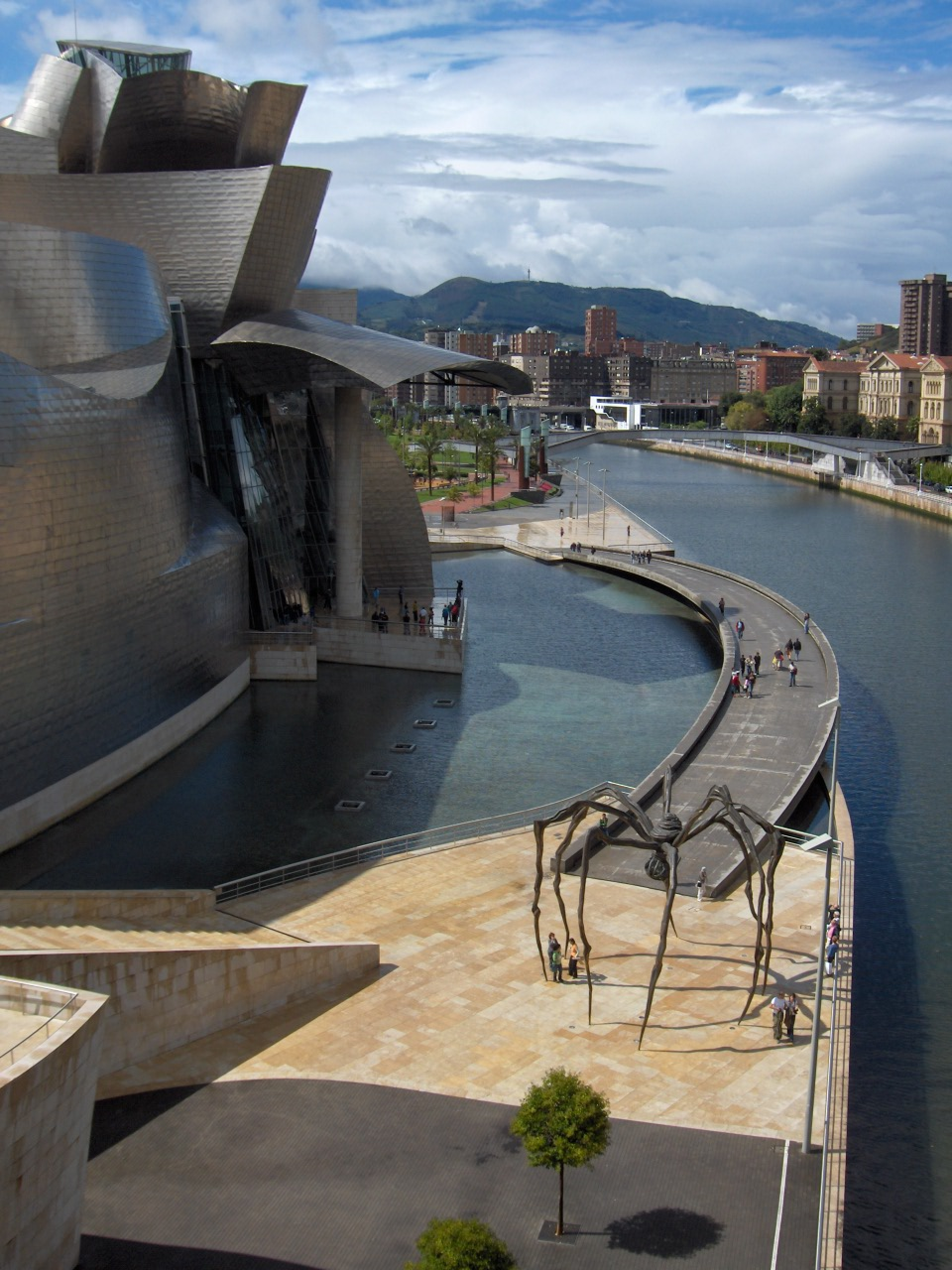 Guggenheim museum in Bilbo, Basque Country; below : Maman, a huge spider by Louise Bourgeois